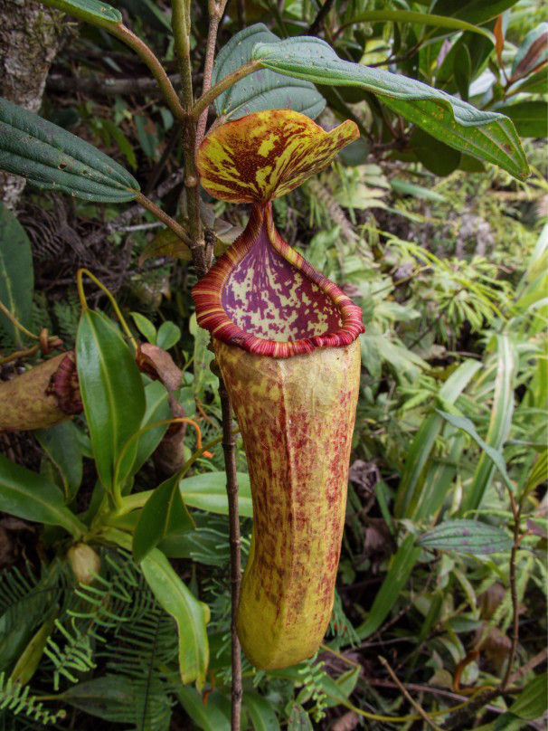 Upper pitcher of Nepenthes sumagaya at the type locality.